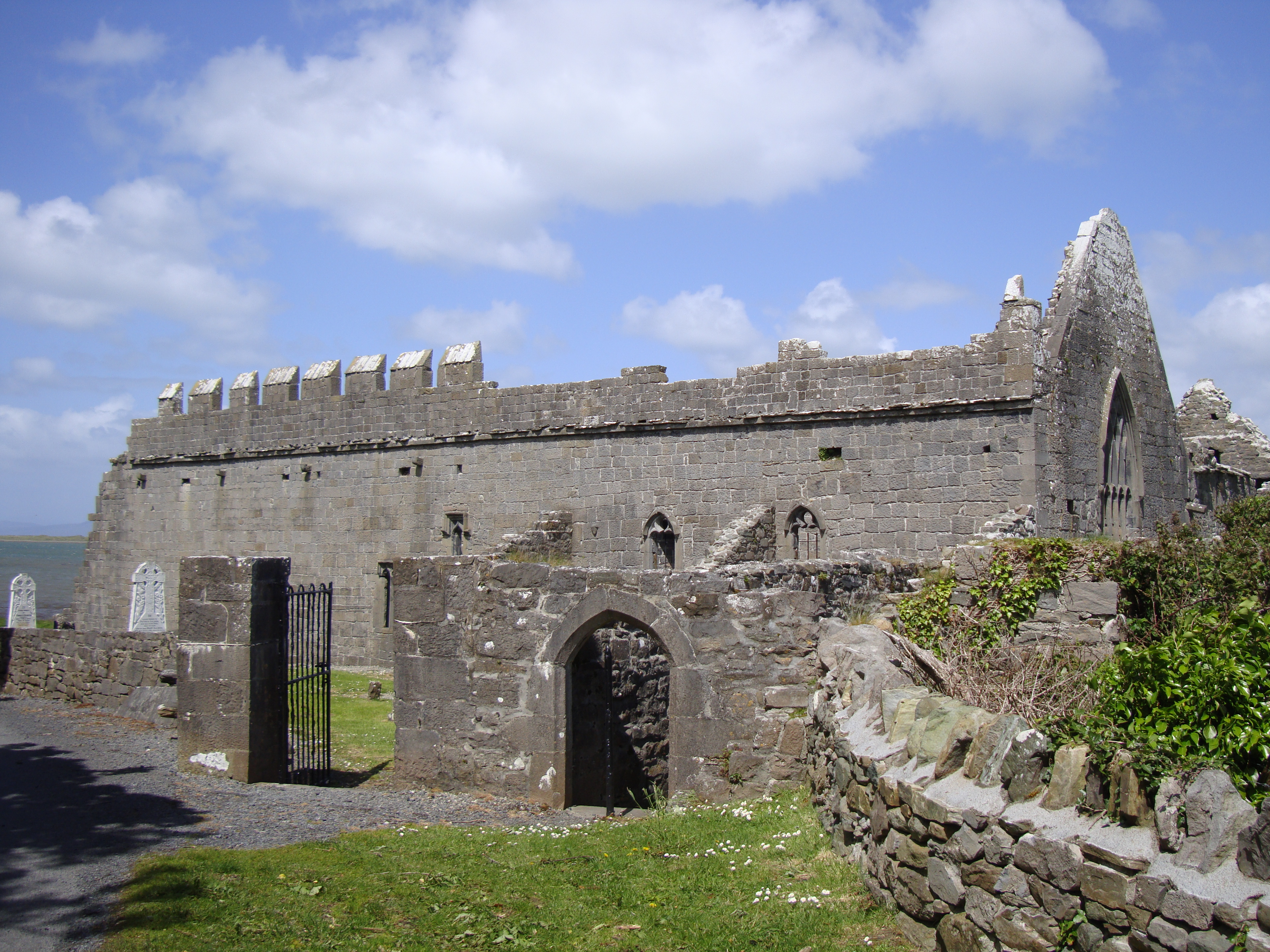 Photograph of Murrisk Abbey, Co. Mayo, Ireland